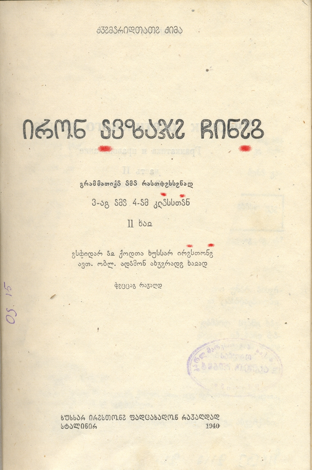 This image (or other media file) is in the public domain because its copyright has expired. This applies to Australia, the European Union and those countries with a copyright term of life of the author plus 70 years. You must also include a United States public domain tag to indicate why this work is in the public domain in the United States. Note that a few countries have copyright terms longer than 70 years: Mexico has 100 years, Colombia has 80 years, and Guatemala and Samoa have 75 years, Russia has 74 years for some authors. This image may not be in the public domain in these countries, which moreover do not implement the rule of the shorter term. Côte d'Ivoire has a general copyright term of 99 years and Honduras has 75 years, but they do implement the rule of the shorter term. This file has been identified as being free of known restrictions under copyright law, including all related and neighboring rights.